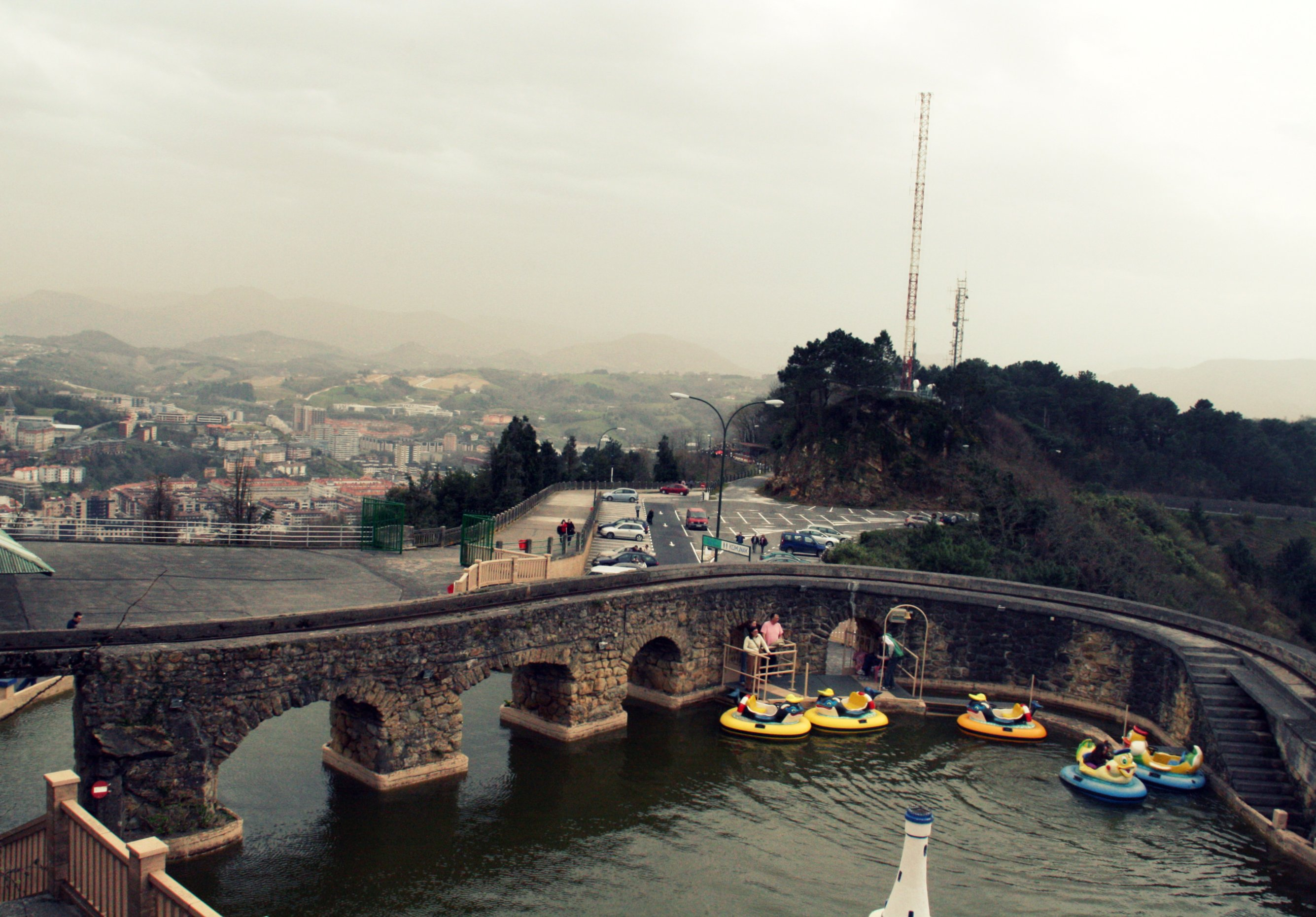 Igeldo amusement park